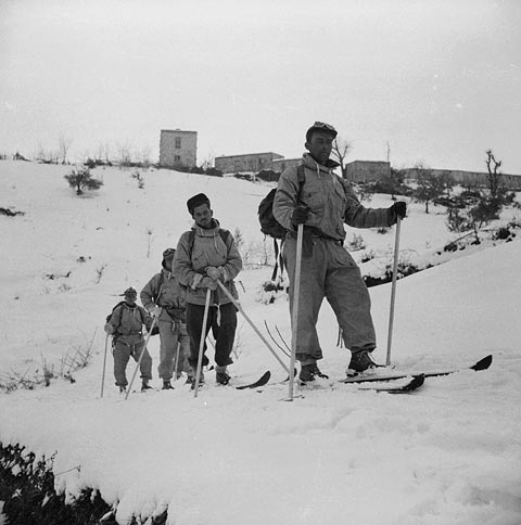 Canadian Army ski patrol with Regimental Sergeant-Major Prévost in the lead, approaching the Headquarters of the outpost in the outskirts, 15 Feb. 1944 / Colledimezzo, Italy